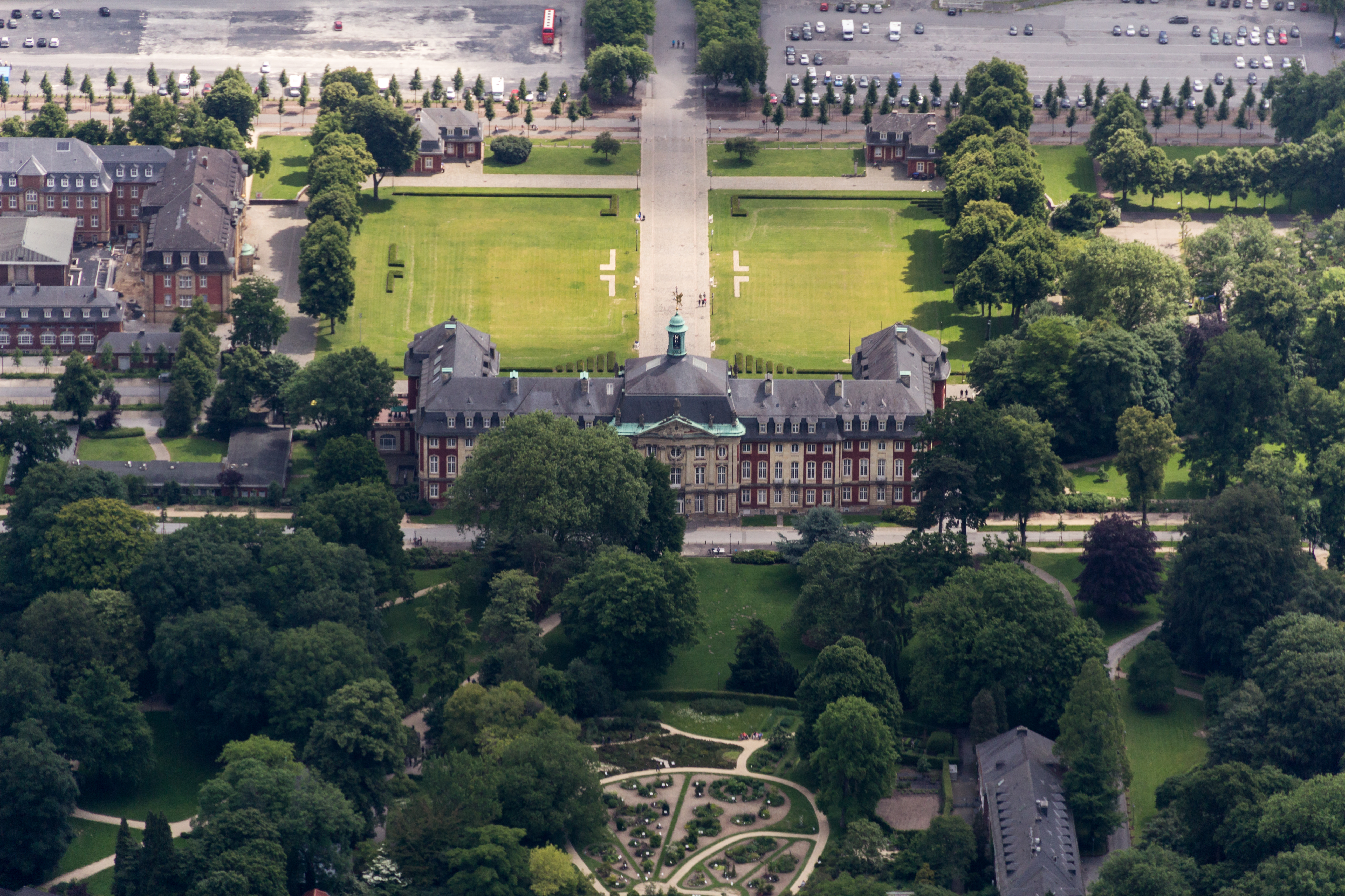 Prince Bishop's Castle, Münster, North Rhine-Westphalia, Germany